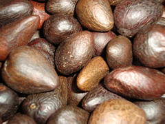 Murumuru seeds